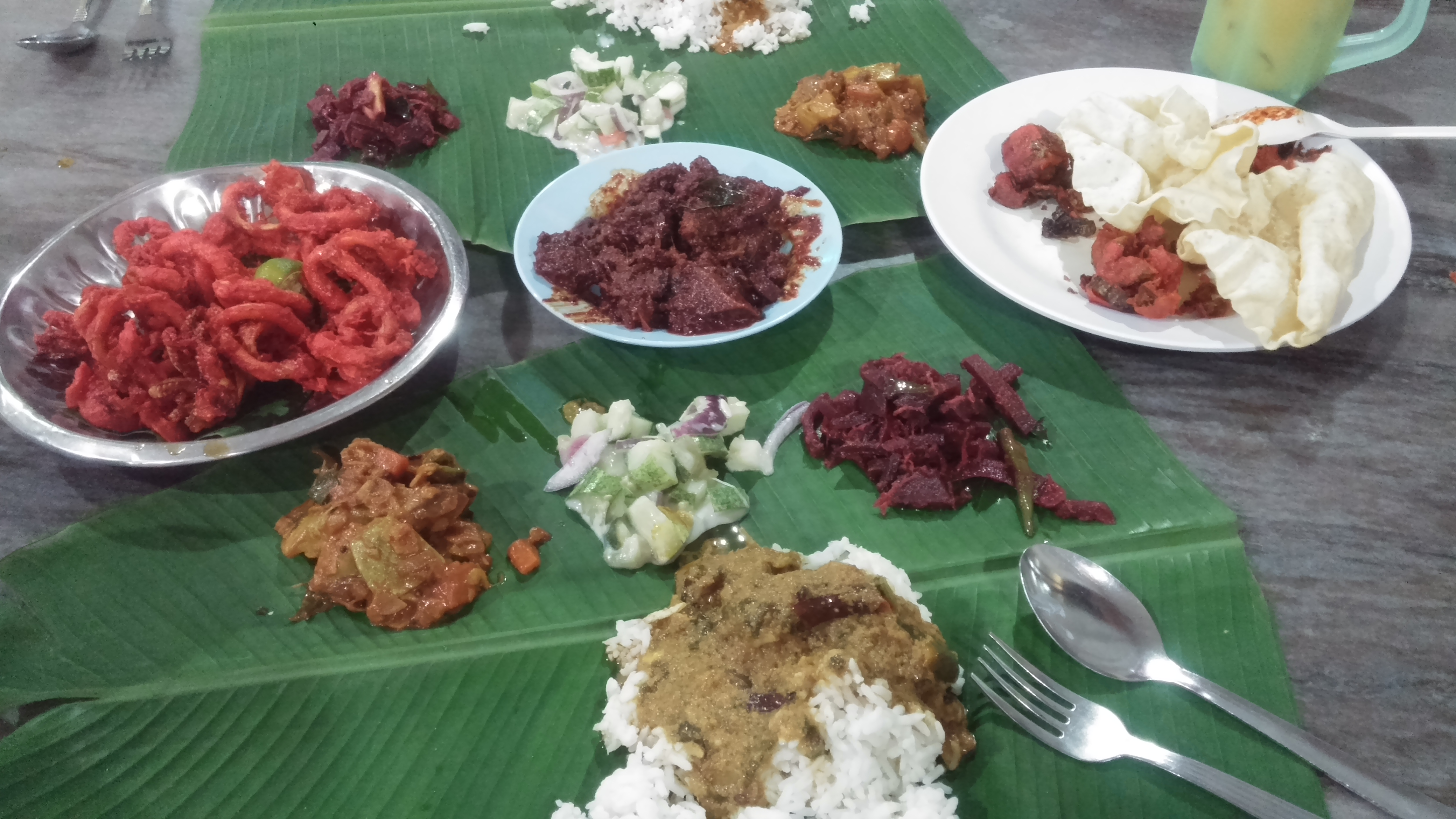 Devi's Corner, Bangsar, Kuala Lumpur